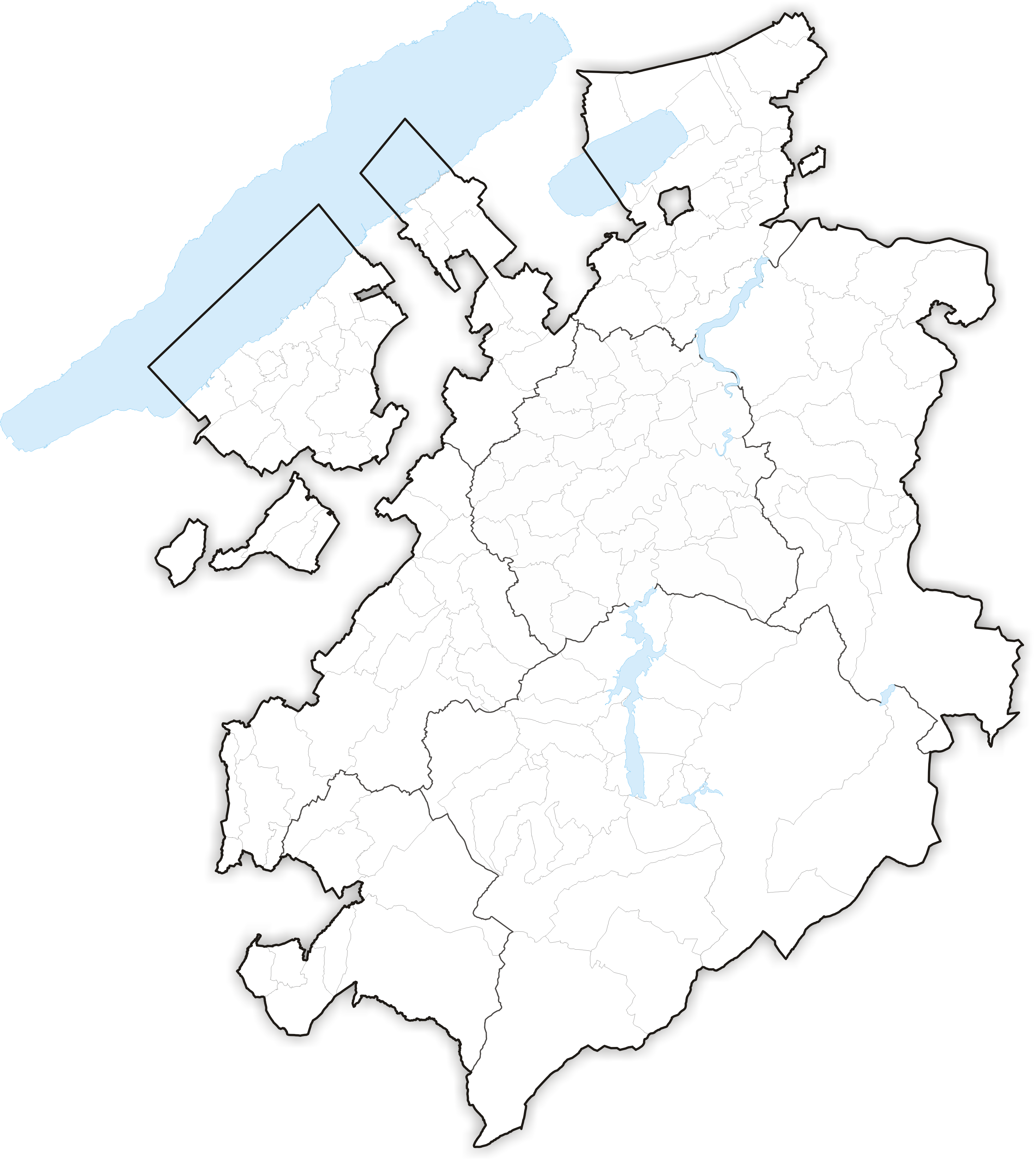 Municipalities in Canton Freiburg